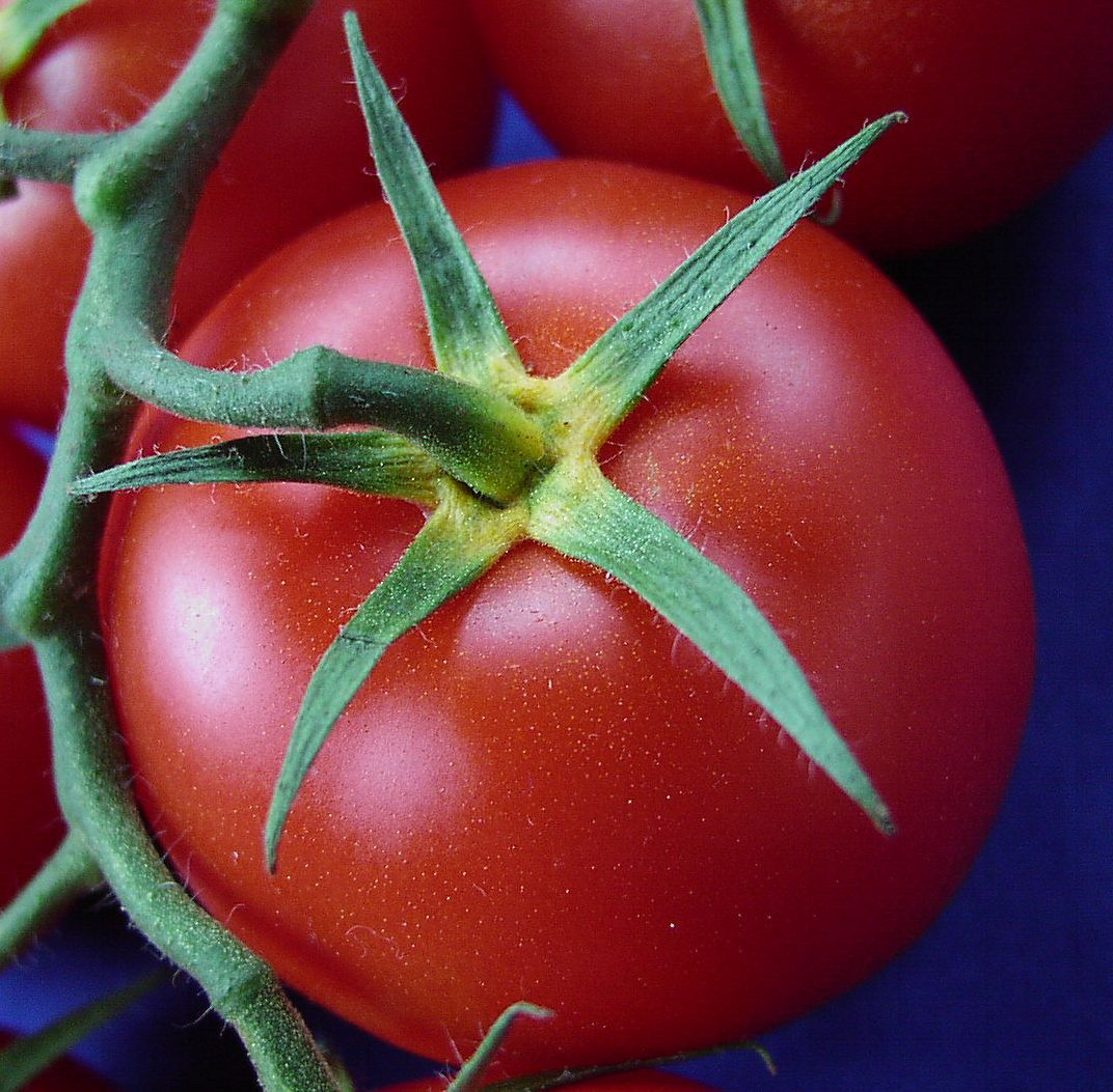 Tomato